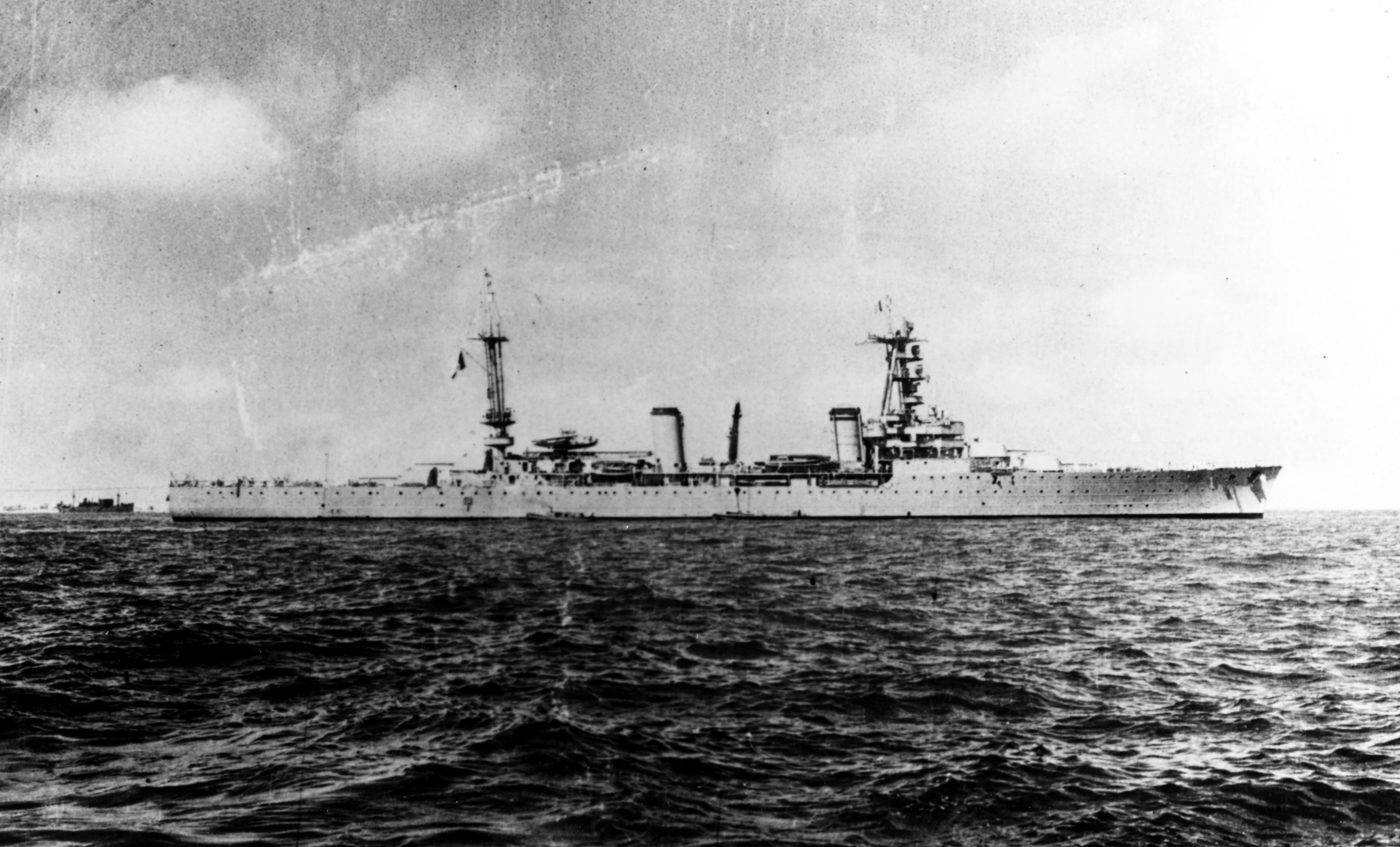 The French heavy cruiser Duquesne in 1943, probably during her voyage from Alexandria, Egypt, to Dakar, French West Africa, in July and August 1943 (via the Indian Ocean).